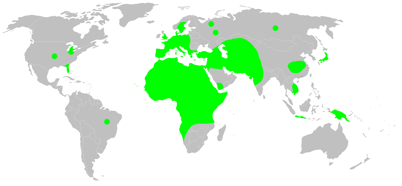 Known world distribution of Uloborus plumipes, based on data from British Arachnological Society, 2006.